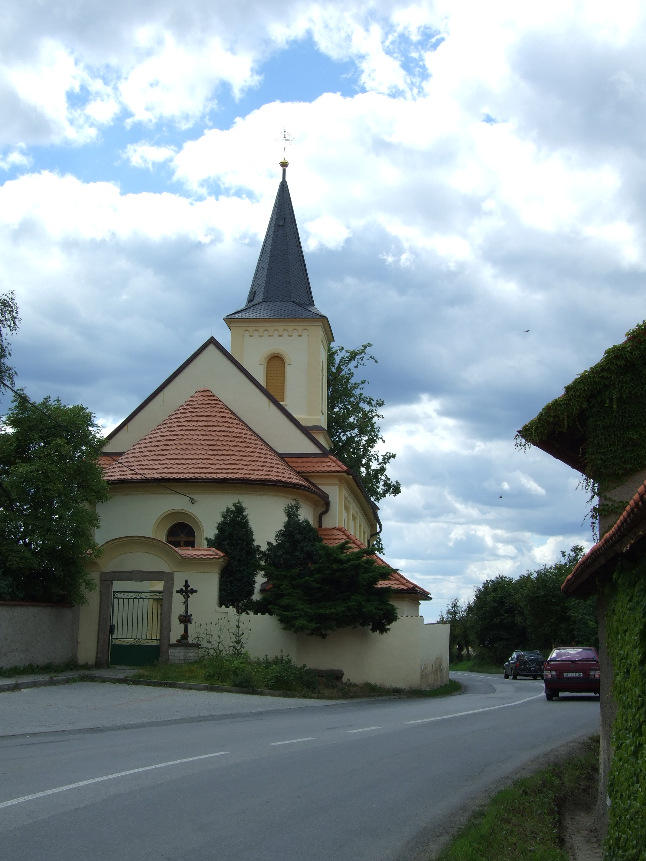 Church of St Wenceslas in Dolní Jirčany, part of Psáry municipality, Prague-West District, Central Bohemian region, CZhelp